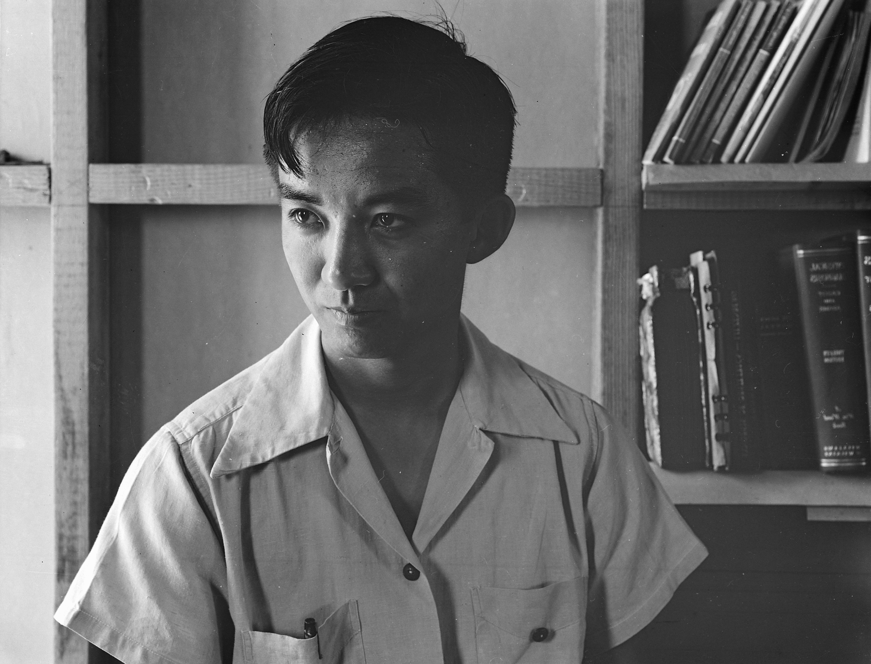 Scope and content: The full caption for this photograph reads: Sacramento, California. Harvey Akio Itano, 1942 graduate of the University of California, who received his Bachelor of Science degree in Chemistry with the highest scholastic record of all candidates for degrees. He was chosen by the faculty as University Medalist of 1942. He could not attend commencement exercises as evacuation of all residents of Japanese ancestry was ordered previously.